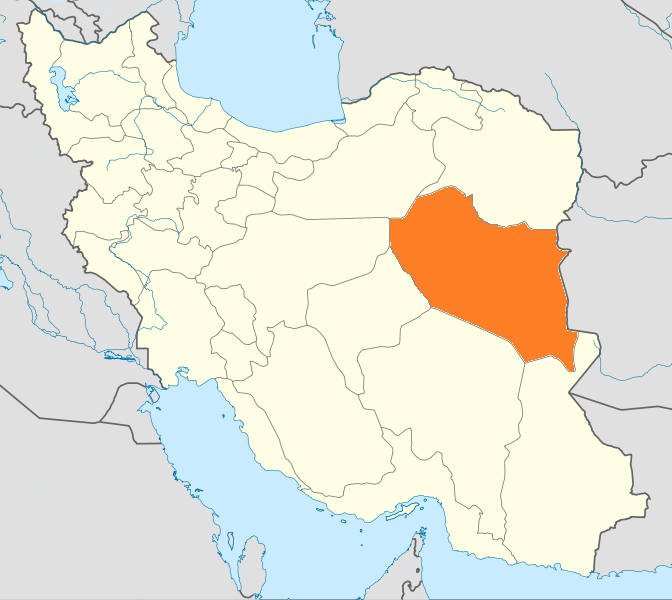 Locator map of Iran